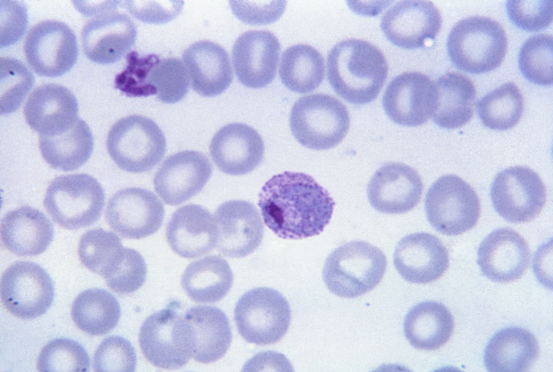 This thin film Giemsa stained micrograph reveals a mature Plasmodium vivax trophozoite. P. vivax trophozoites show amoeboid cytoplasm, large chromatin dots, and fine, yellowish-brown pigment. RBCs are enlarged 1 1/2 - 2X, and may be distorted. If visible, Schüffner's dots may appear finer than those seen in P. vivax.